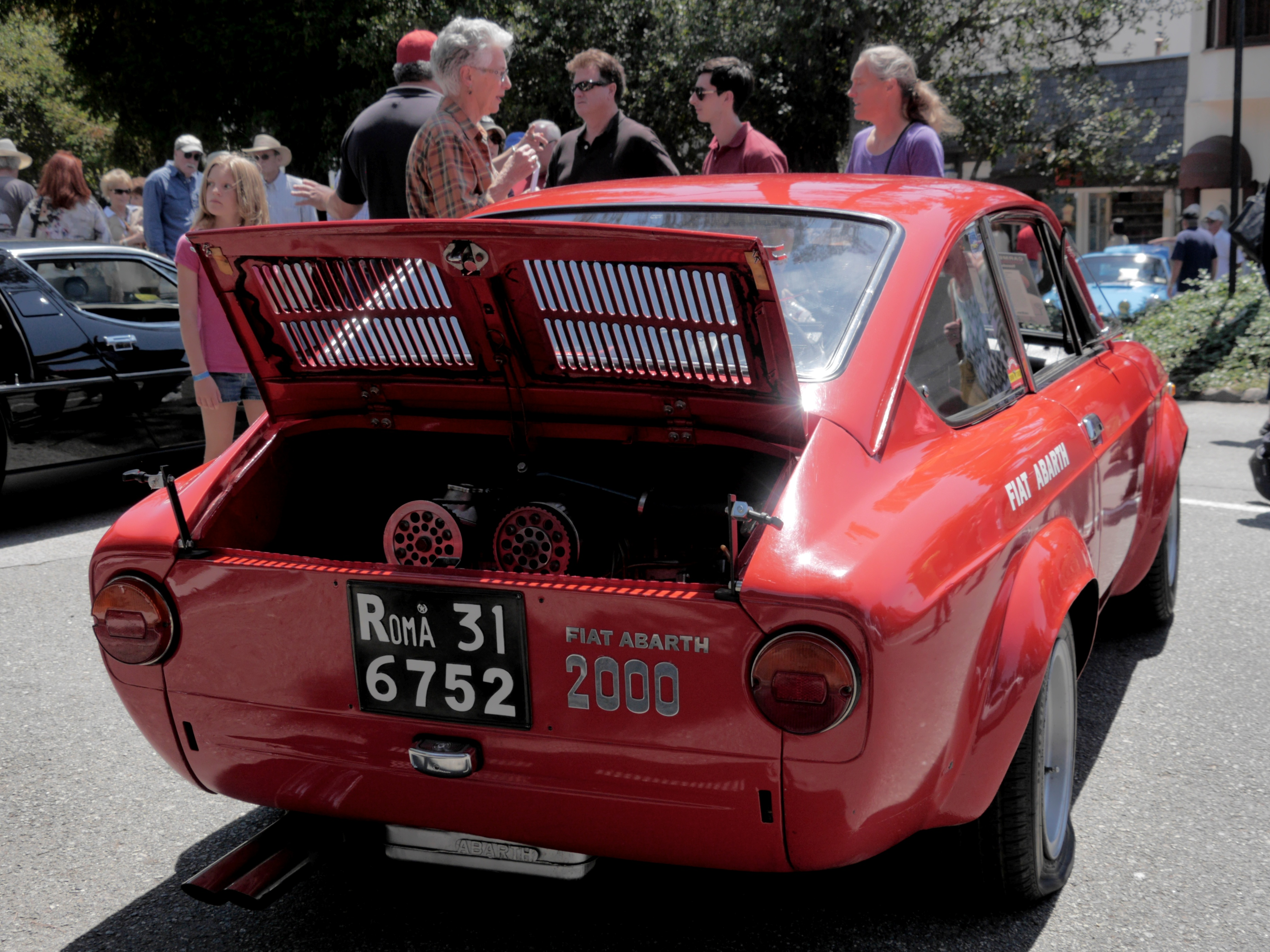 Concours on the Avenue 2014